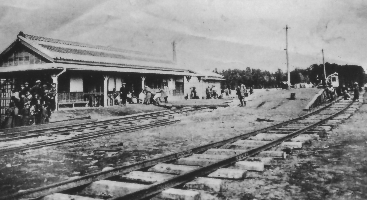 Shiki Station under construction on the Tojo Railway Line (present-day Tobu Tojo Line)